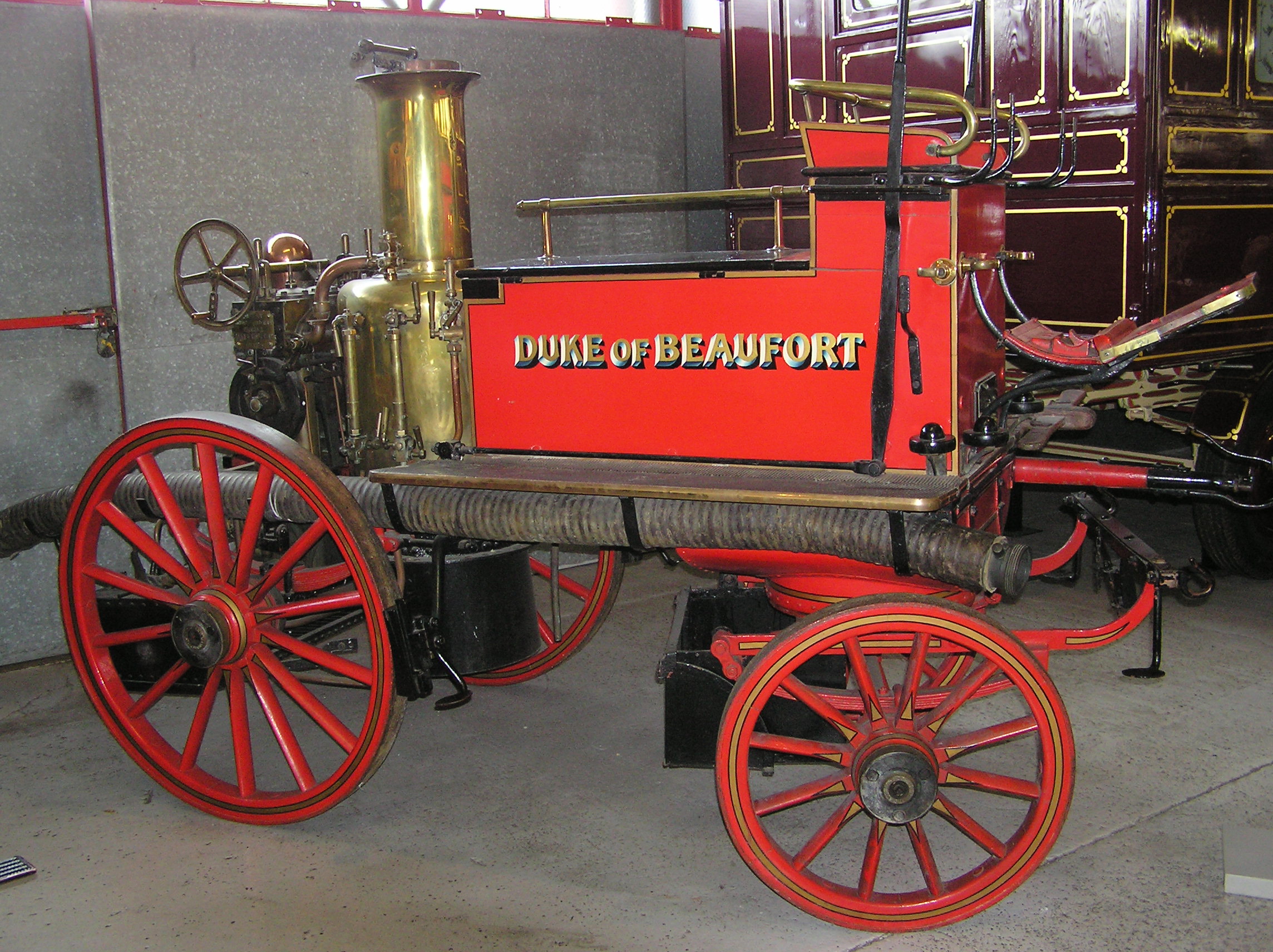 1906 horse-drawn steam fire engine. The water is pumped onto the fire by a double-acting onboard steam engine. Steam could be raised to working pressure from cold water in 10 minutes, while travelling to the fire. Coal for the boiler was kept in the bunker below the front axle. Used privately on the Duke of Beaufort’s estate, at Badminton, near Bristol, Gloucestershire, England (In 2007 the Bristol Industrial Museum was permanently closed for conversion to the Museum of Bristol. The exhibits are in storage.)